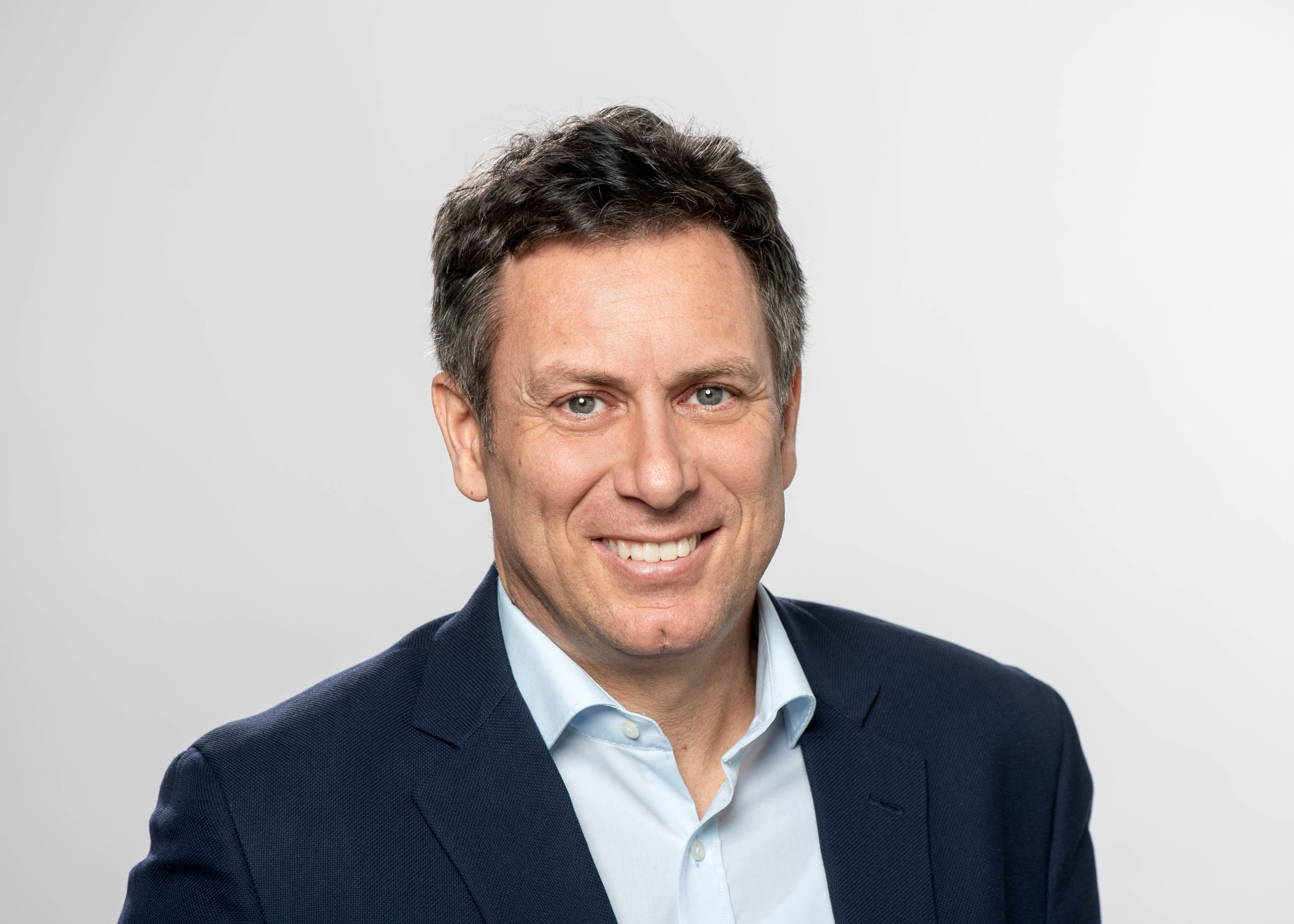 Picture of Klaus Bogenberger taken by Andreas Heddergott, TUM